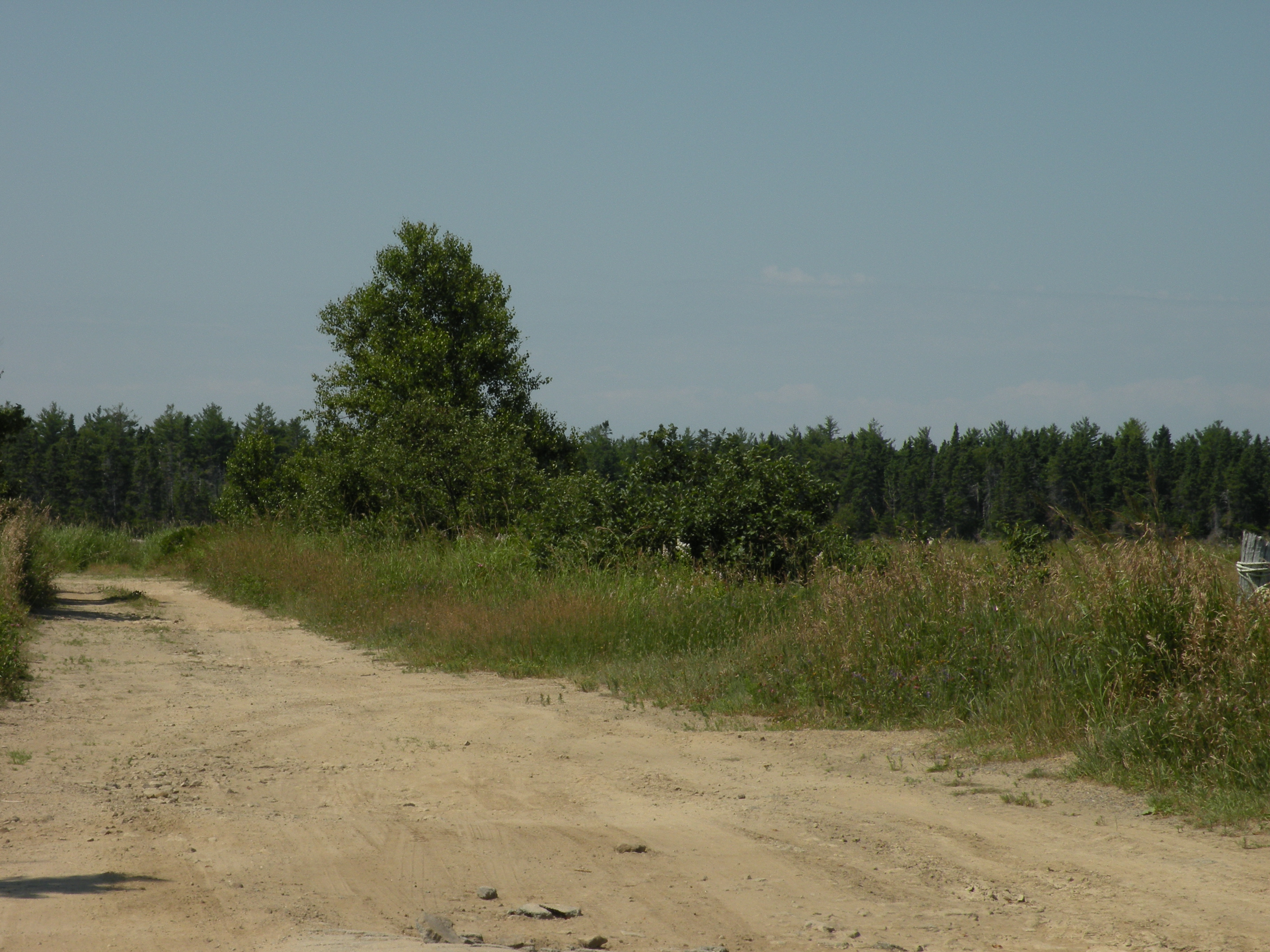 Road leading to the former causeway of the Pokesudie Islet, New Brunswick, Canada.